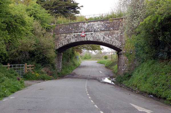 This bridge at St Kew Highway, Cornwall, UK, carried the North Cornwall Railway over the A39 road